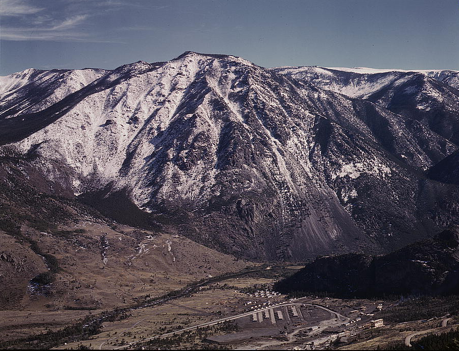 Development at the site of the mill for the Mouat Chromite mine, Stillwater County, Montana.